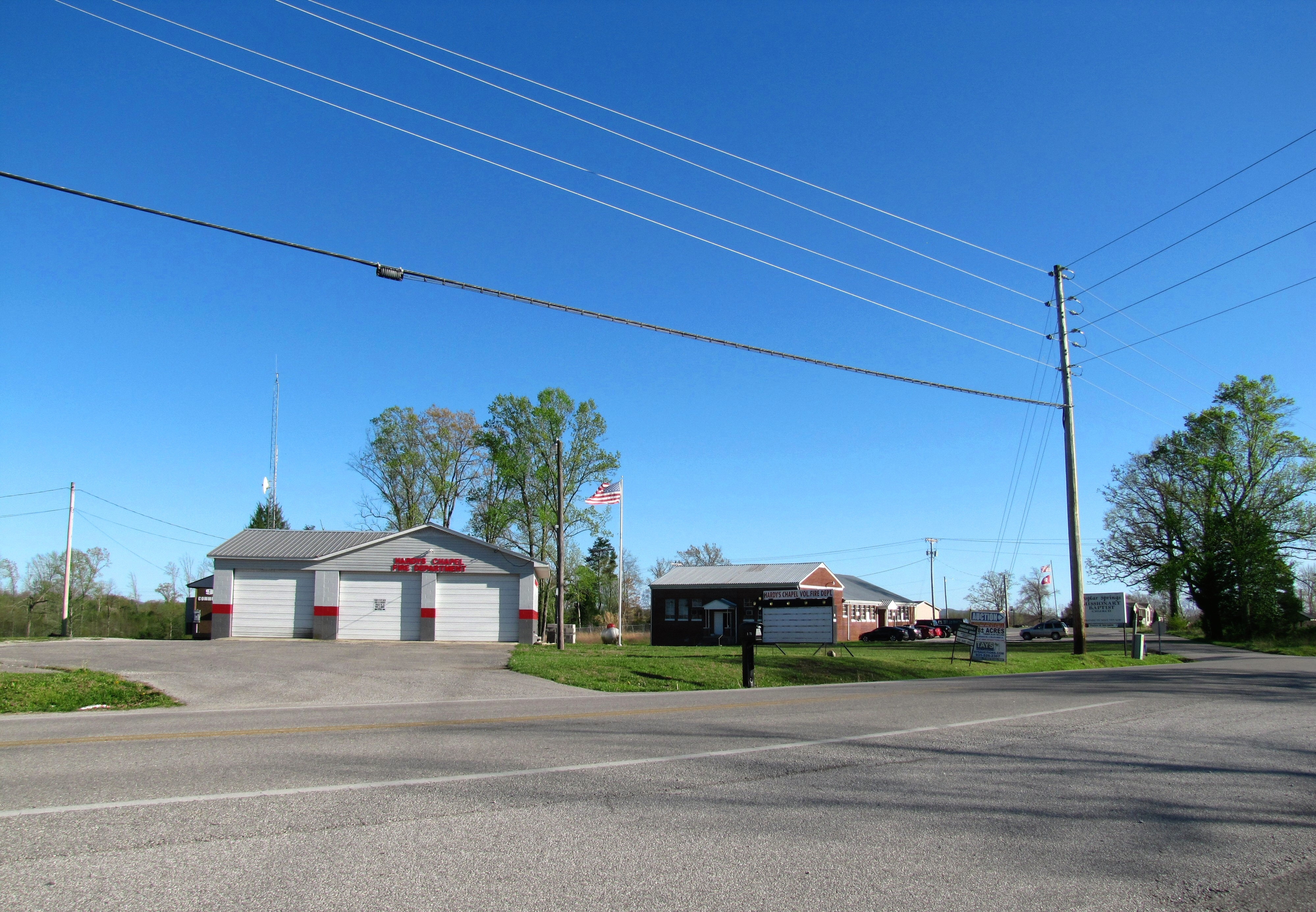 Buildings along State Route 136 in the Hardy's Chapel community of southern Overton County, Tennessee, United States.